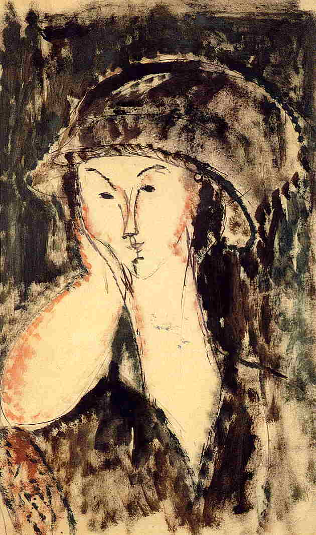 Amedeo Modigliani painter and sculptor 1884-1920